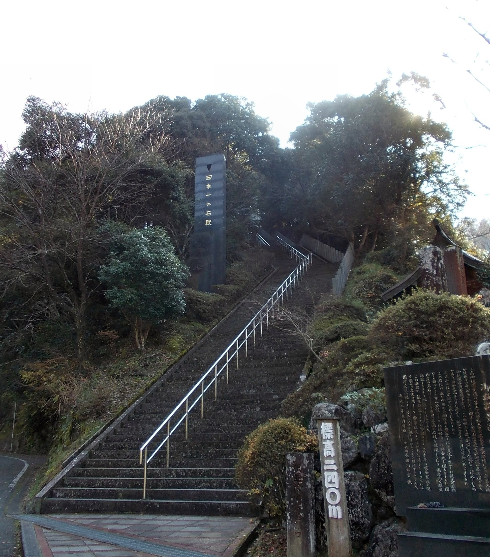 The "number one" stone stairway with a total of 3,333 steps in Misato, Kumamoto, Japan.